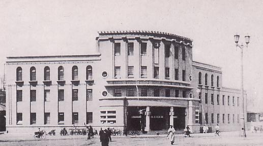 Heijo(Pyongyang) City Hall